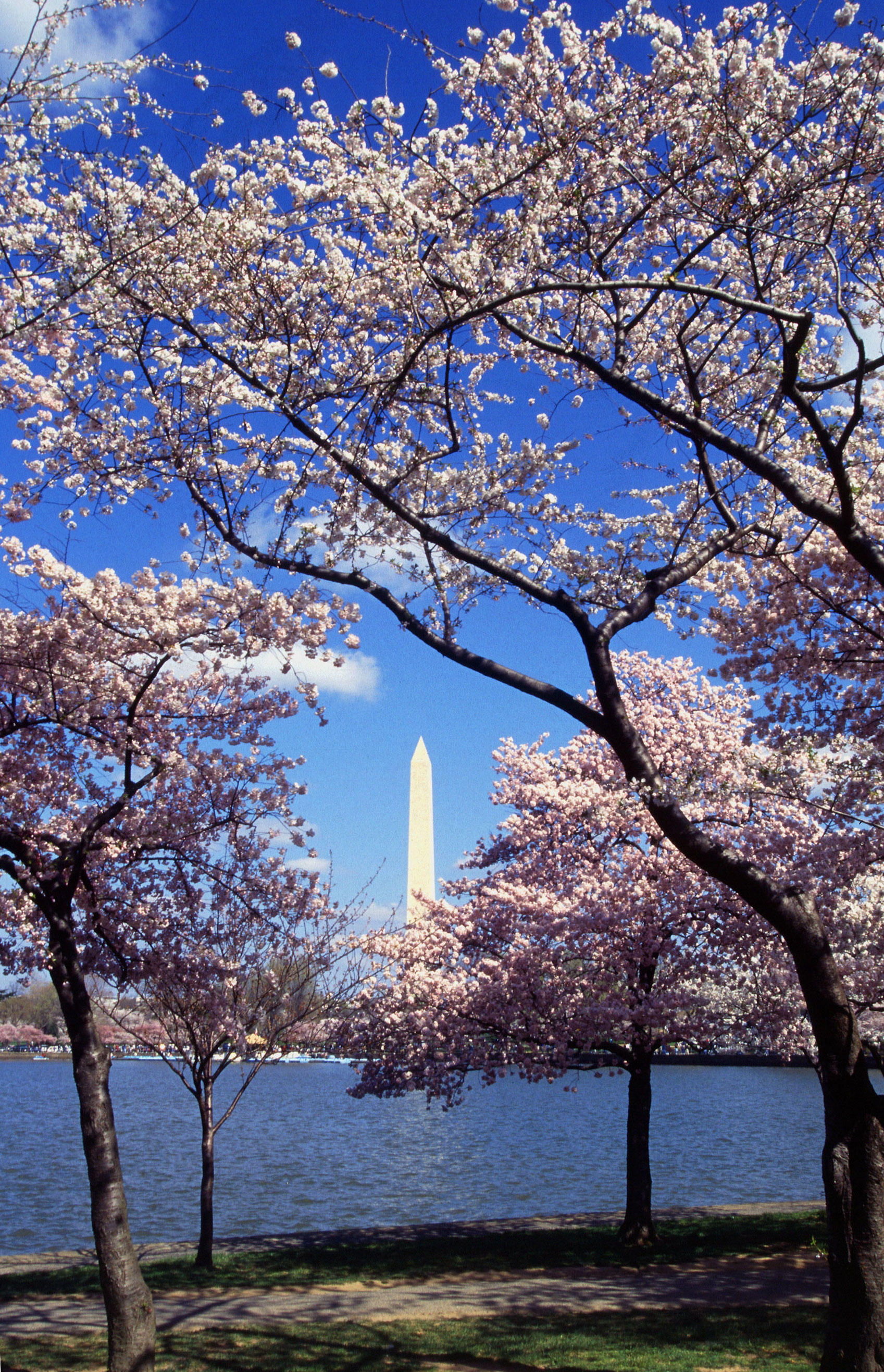 Japanese cherry trees (Sakura), a gift from Japan in 1965, adorn the Tidal Basin in Washington, D.C. during the National Cherry Blossom Festival. The Washington Monument is visible in the distance.